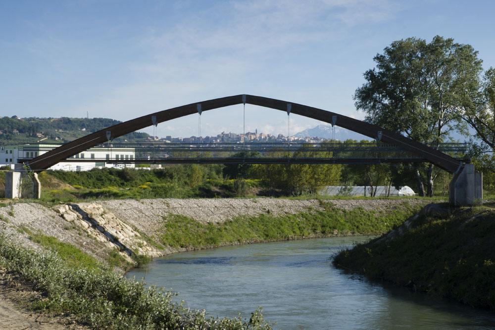 Panorama di Chieti dal Fiume Pescara presso San Giovanni Teatino (CH)